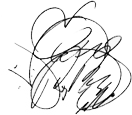 Seungri signature